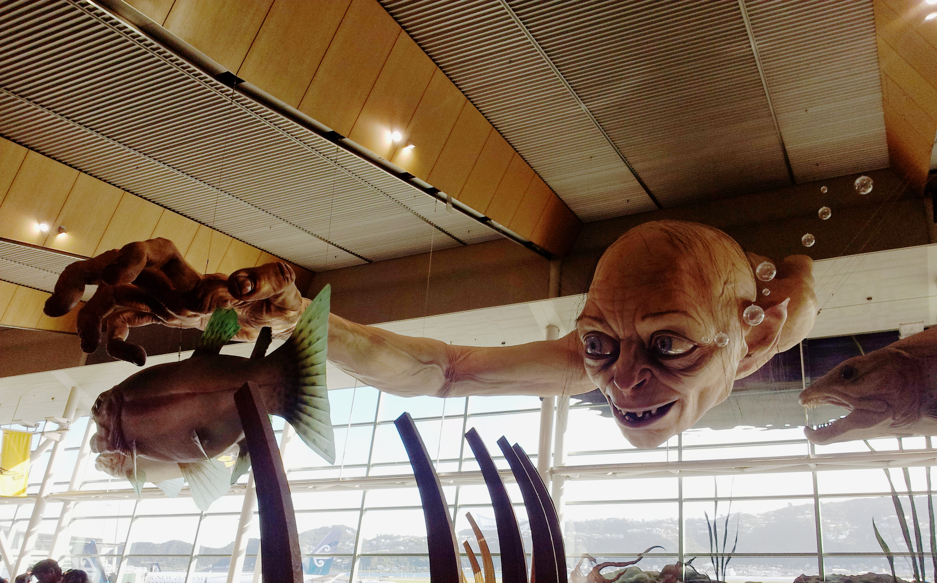 A 13-metre sculpture of Gollum with three fishes, in the Wellington Airport terminal.